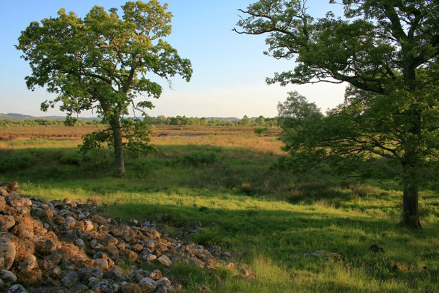 Moss of Achnacree As seen from the chambered cairn at Càrn Bàn.